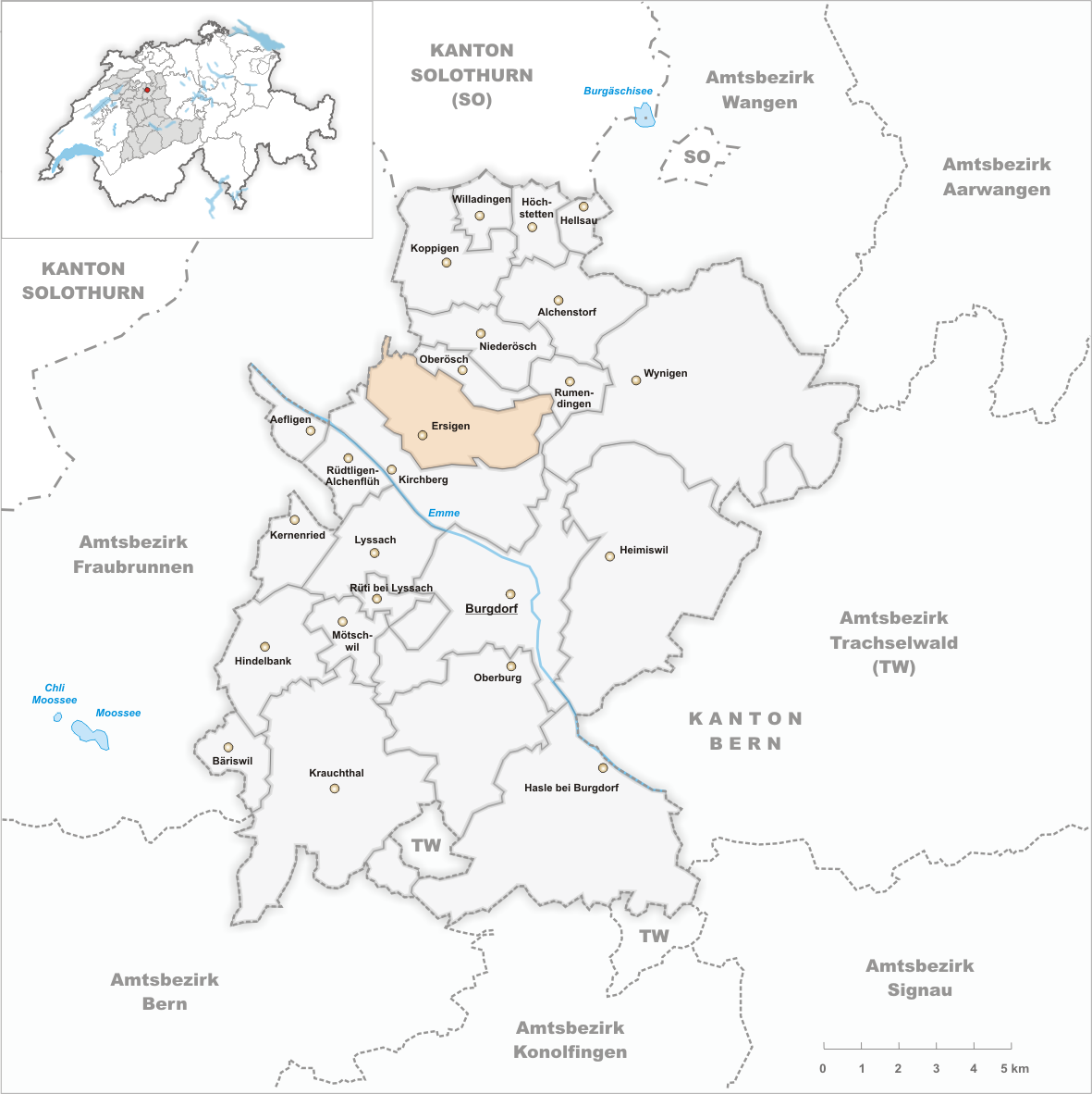 Municipality Ersigen